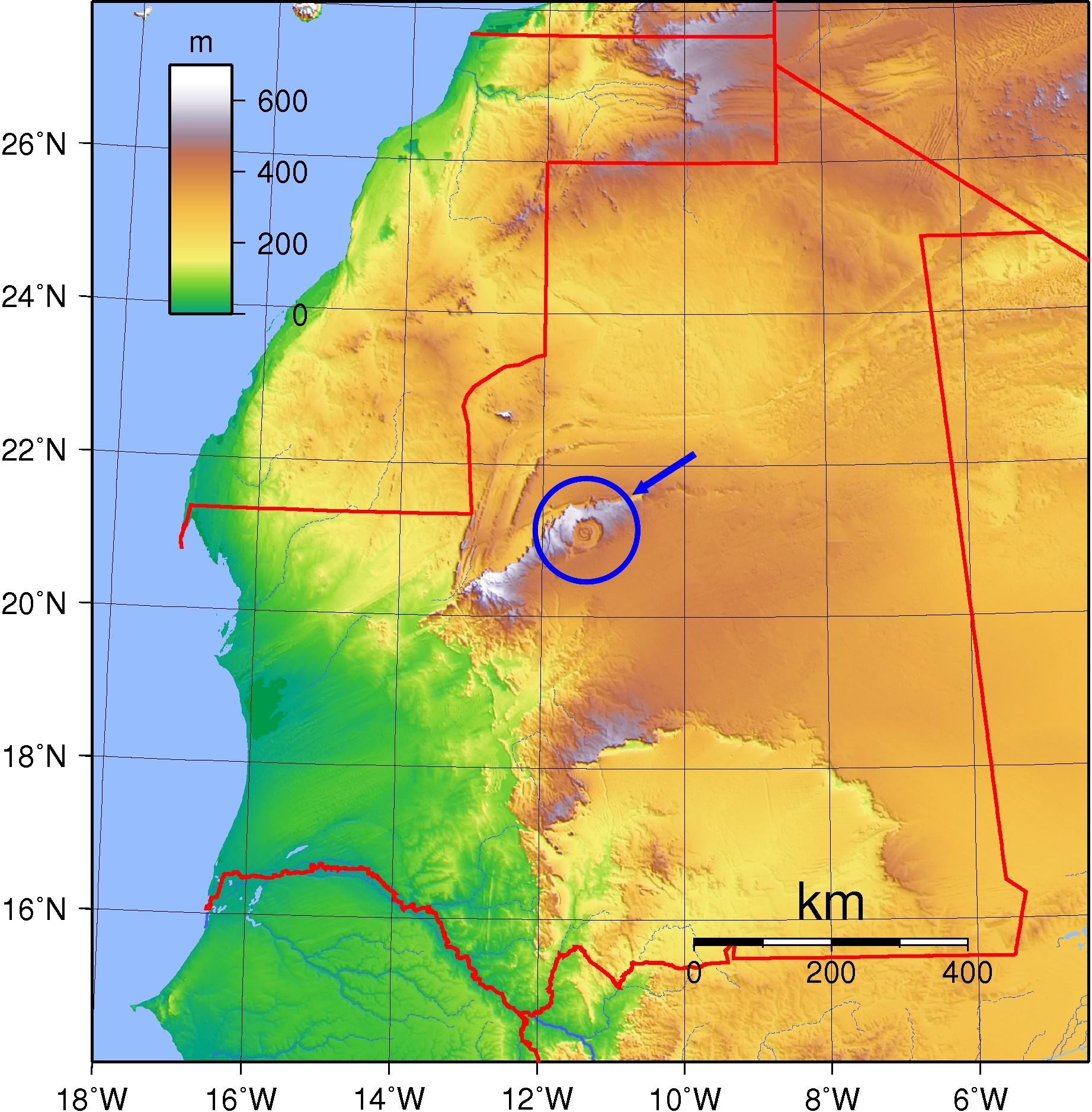 Topography of Mauritania. Created with GMT from GLOBE data.